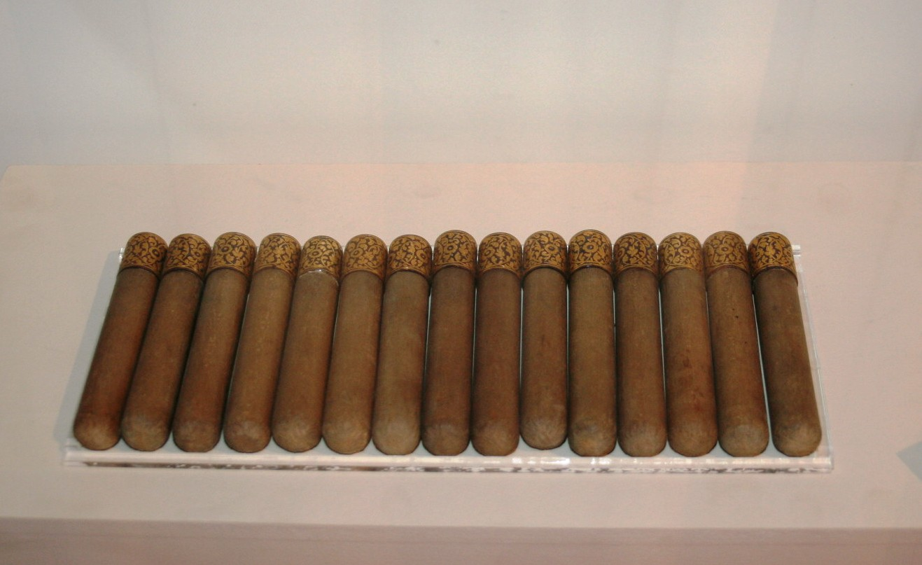 Bandolier of militery uniform owned by Mayor-general Ibragim agha Usubov